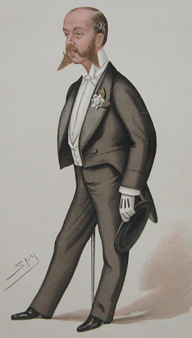 Caricature of Alfred Charles de Rothschild (1842-1918).